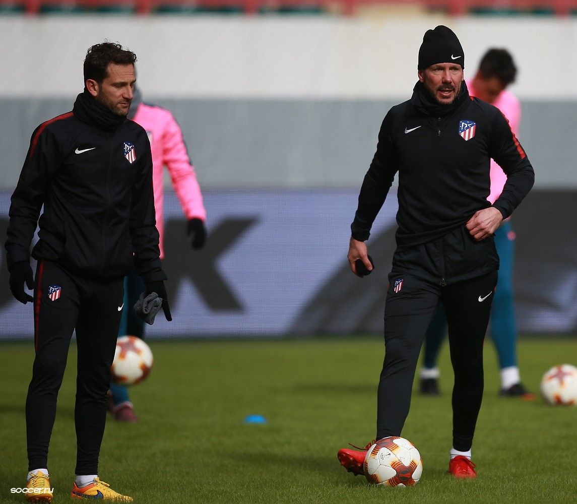 Diego Simeone